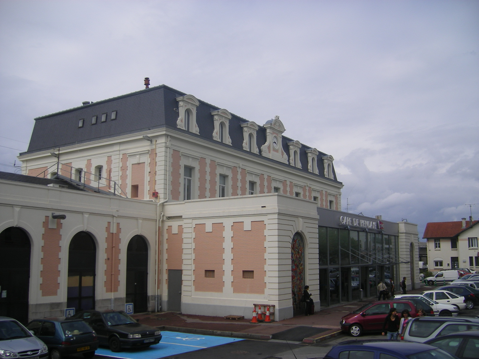 Hendaye, train station